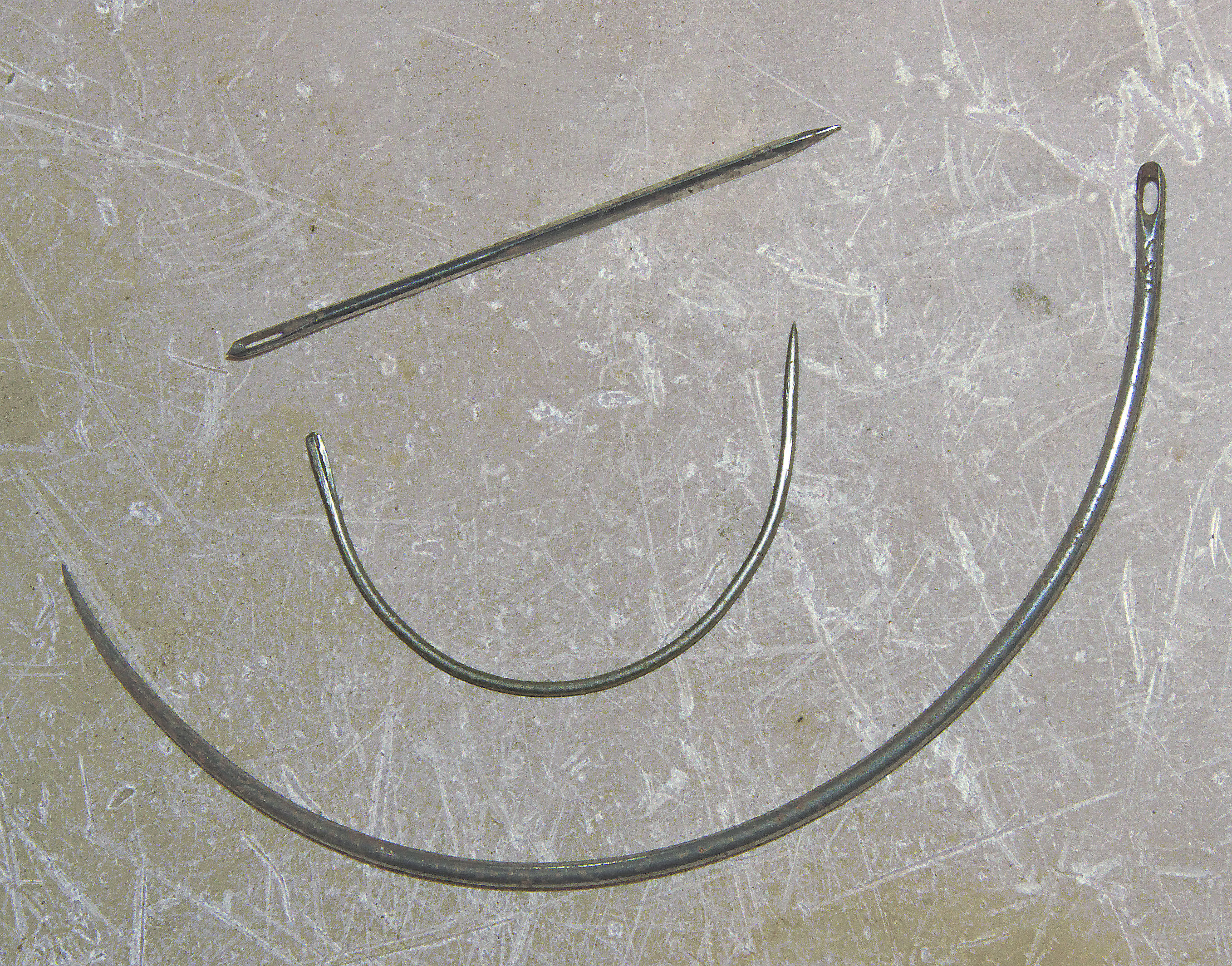 Sailmaker needles